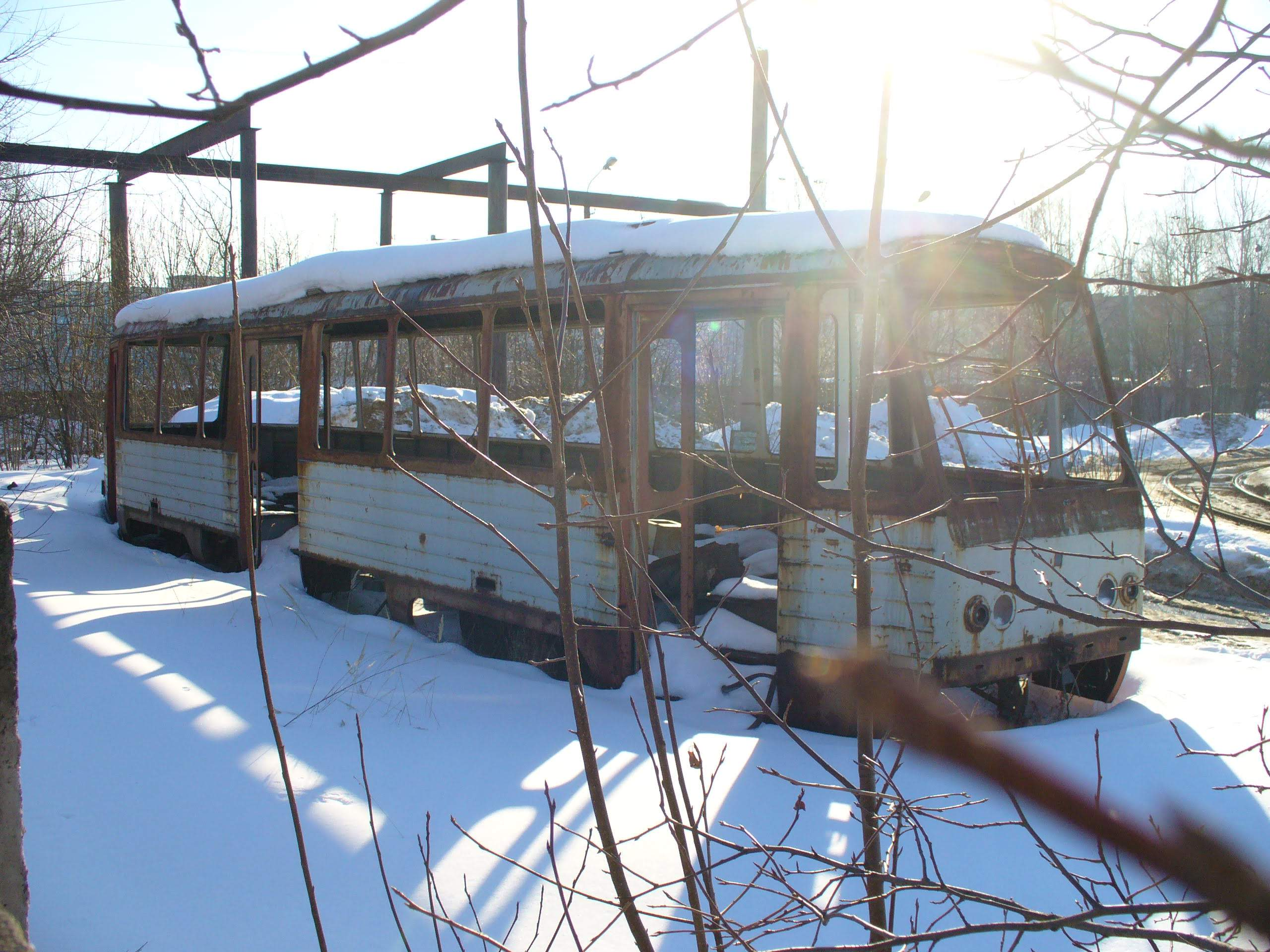 Tver, tramcar RVZ-7 (71-267) #2. Tram depot #2